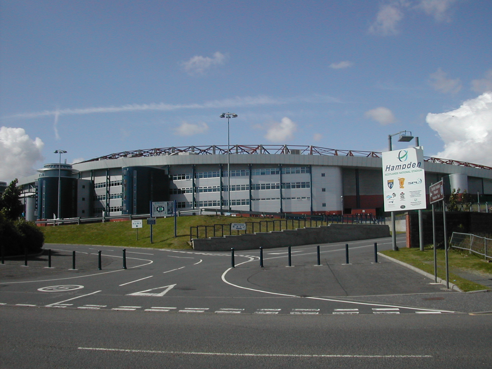 Hampden Stadium, Glasgow Home of the Scottish national football team